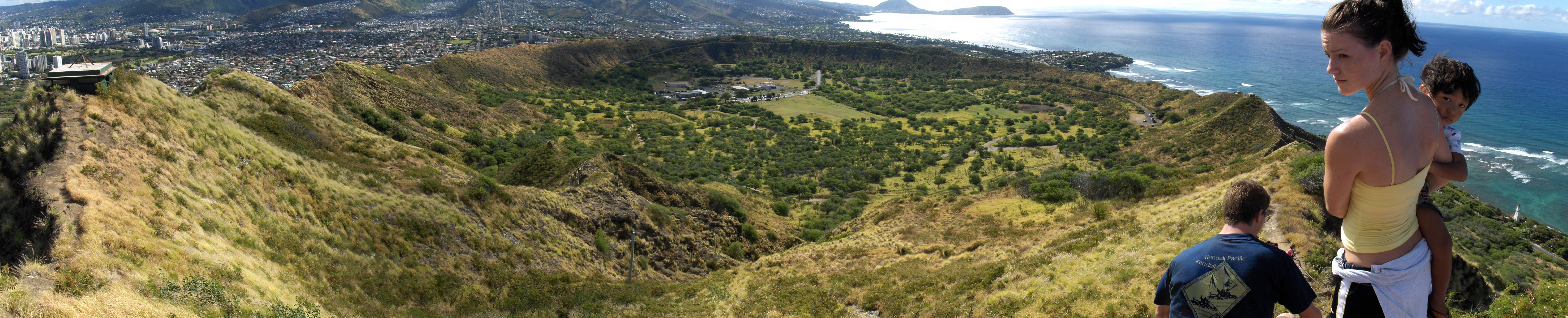 A high-resolution panoramic shot from the rim of the Diamond Head Crater on Oahu near Waikīkī. Both the district of Honolulu and Koko Head can be seen in the background, to the left and right, respectively. Taken by myself in June 2006. Looking eastward, the background landmark seems to resemble Koko Head ... Diamond Head to Koko Head : Maunalua Bay , 88.10°TN, 7.07 miles